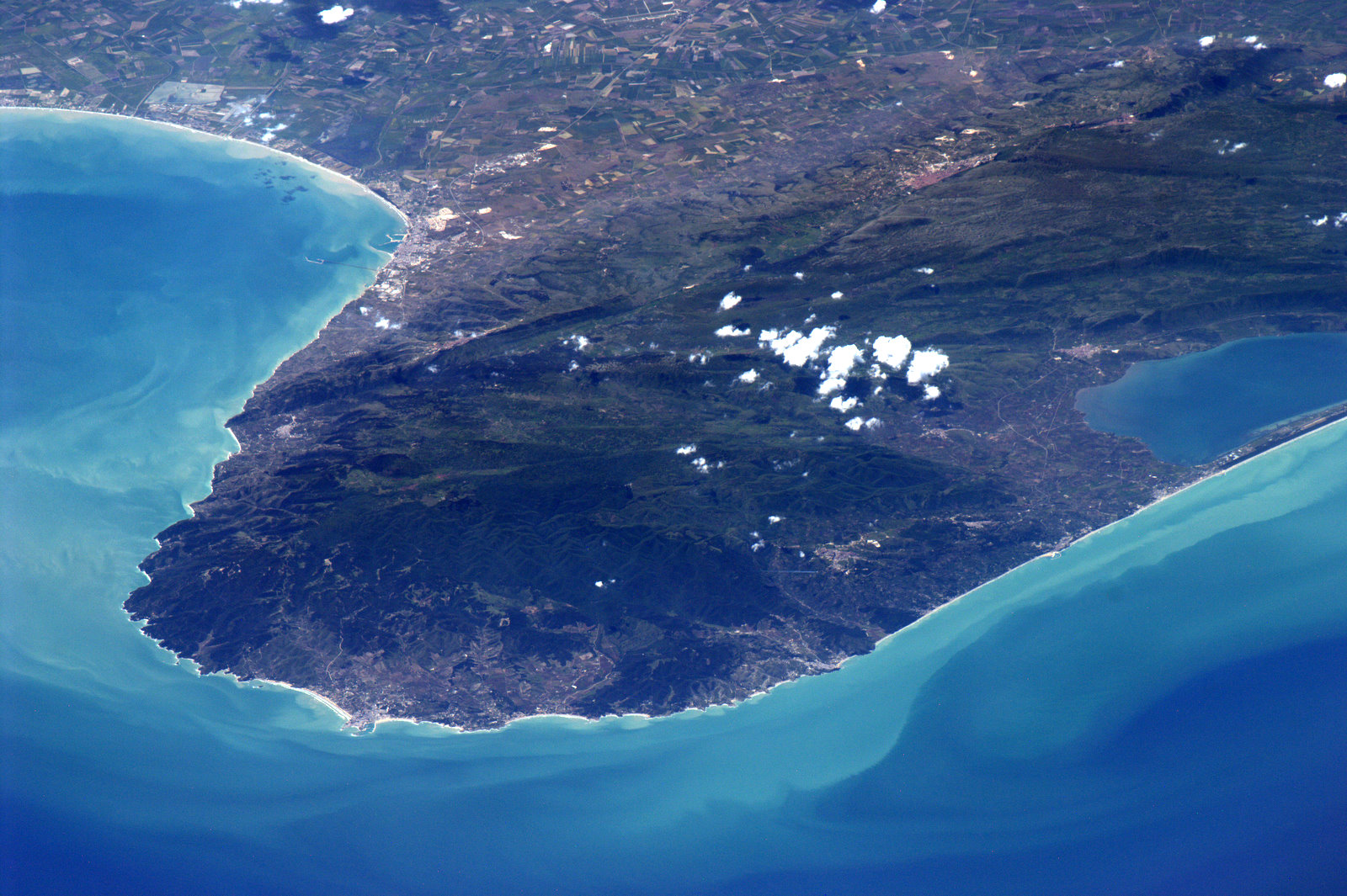 Gargano's photograpy made on 10-05-2011 by Paolo Nespoli on International Space Station using a Nikon D2Xs